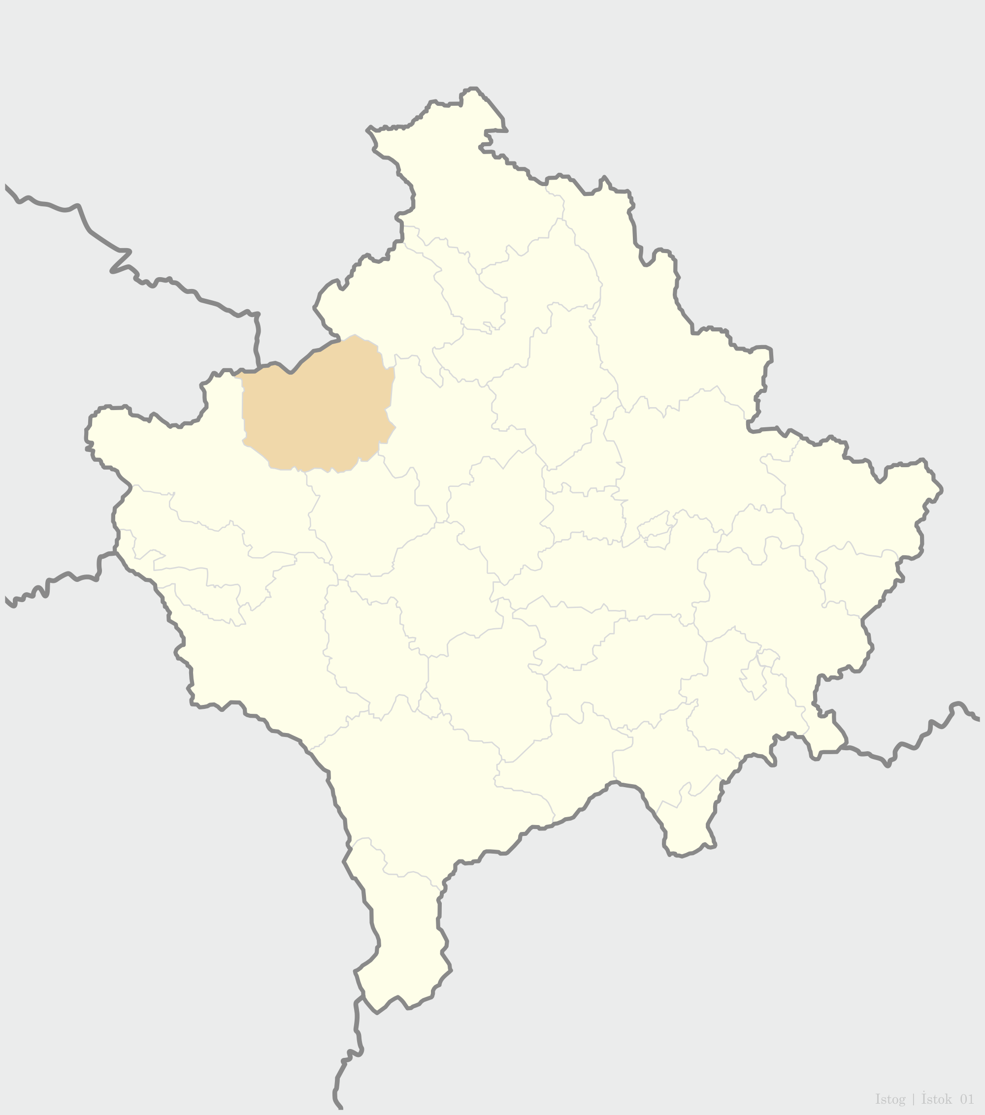 Municipality of Istok map